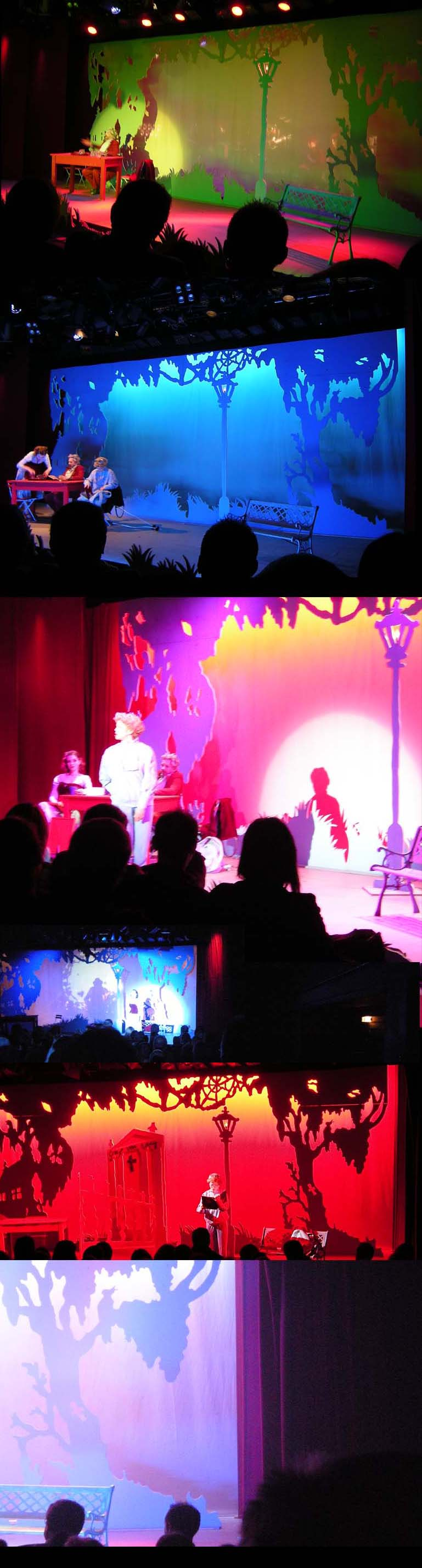 Austrian musician Ernst Molden's performance&play 'Häuserl am Oasch' -- Rabenhoftheater, Vienna. "Häuserl am Oasch" which literally translates as "Little house on the ass", means, in Viennese slang, "some little house on some very much outside end of our town" [amongst other meanings ;] "wuaschtwoos" is Viennese slang for "anything" -- the picture is some kind of Fricassee of the play. Camera [EXIF] time is set to UTC, which is local CEST-2.